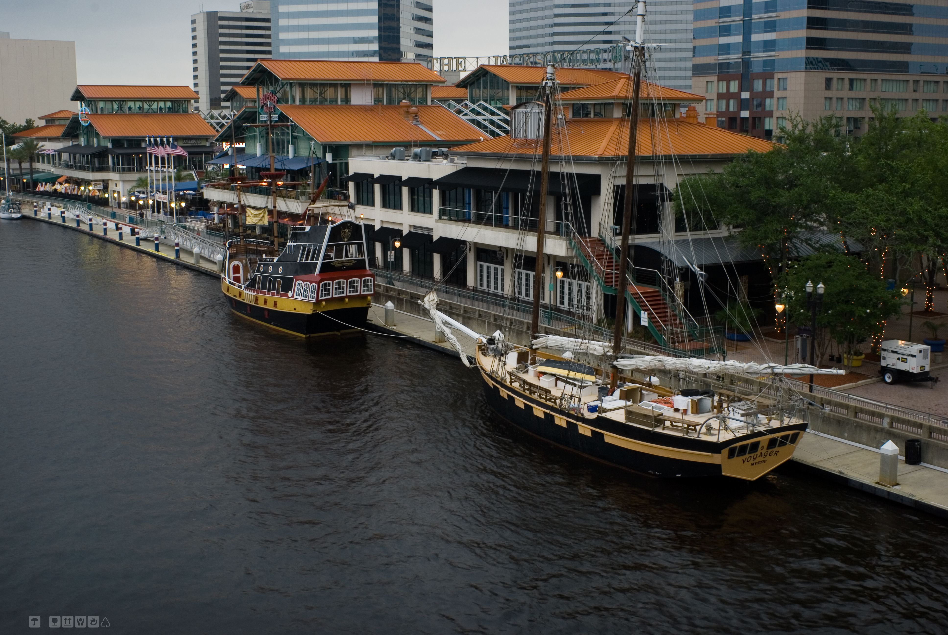 Jacksonville Landing. Black Raven and Voyager Mystic. Tail ships. Jacksonville. Florida. Nikon D60 + Nikkor H 85mm f1.8 . Manual.